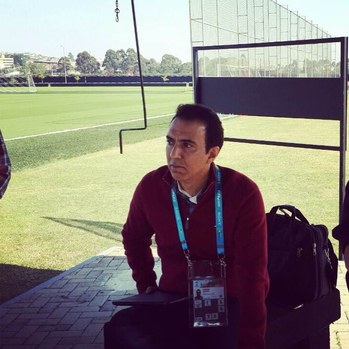 Mazdak Mirzaee Iranian TV anchor In the training camp of Iranian National Football Team